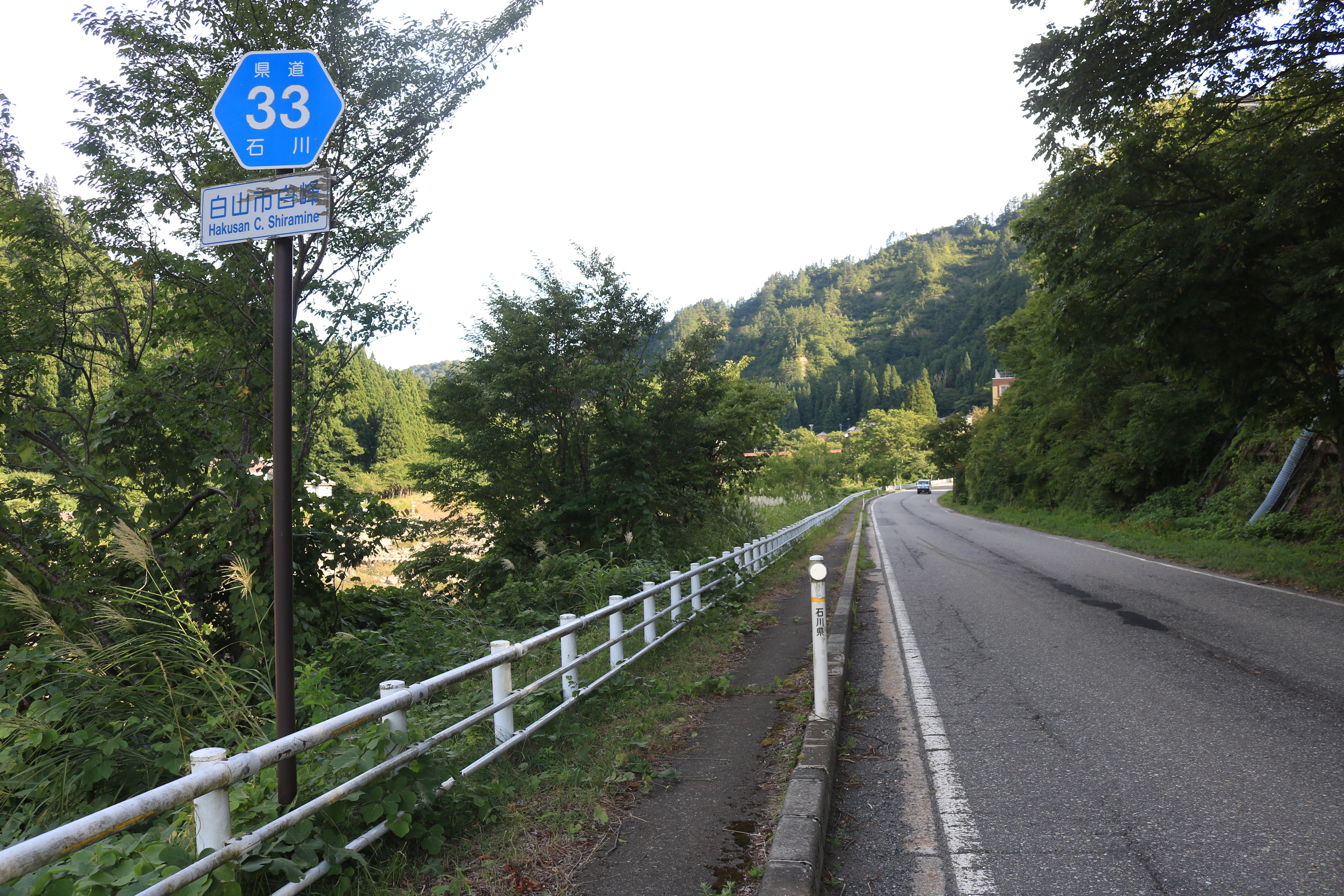 Ishikawa Prefectural Road Route 33 in Shiramine, Hakusan, Ishikawa Prefecture, Japan.